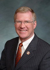 Colorado state representative Rep. Kent Lambert, HD-14